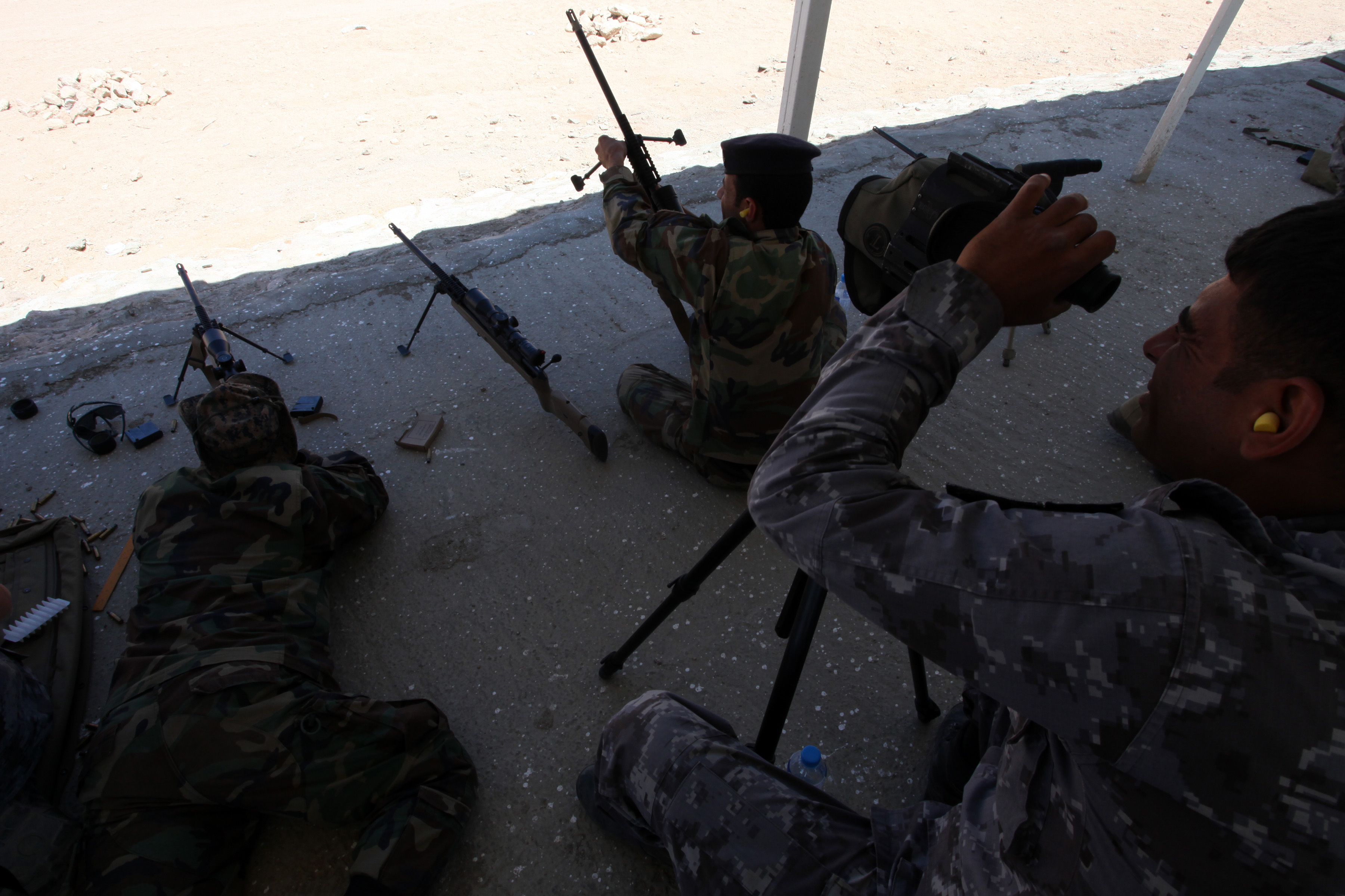 Members of the Jordanian 77th Marine Reconnaissance Battalion verify scope settings during a live-fire bilateral training range here, May 8, 2012. The bilateral training is part of Exercise Eager Lion 12, taking place throughout the month of May and designed to strengthen military-to-military relationships of over 15 participating partner nations. This is the second major exercise for the 24th MEU who, along with the Iwo Jima Amphibious Ready Group, is currently deployed as a theater security and crisis response force.